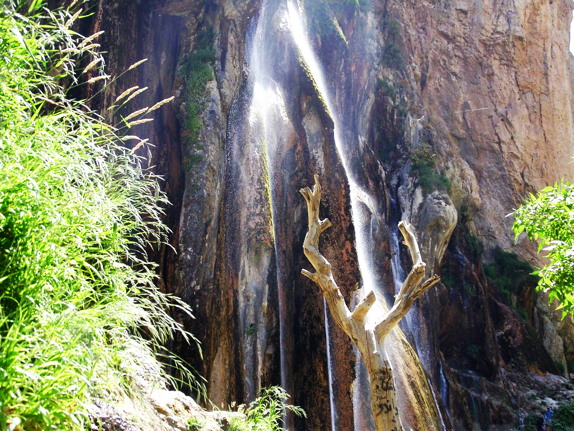 آبشار مارگون سپیدان فارس